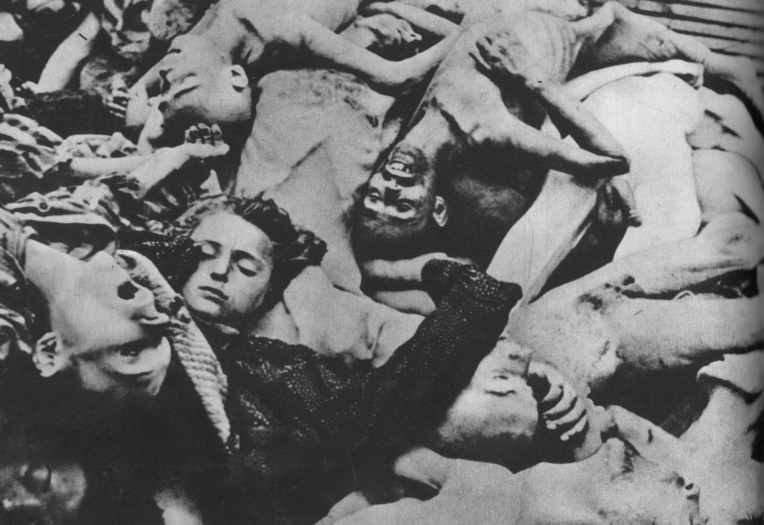 Liberated Majdanek concentration camp. Corpses of victims